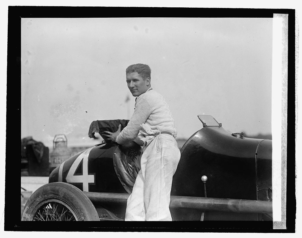 Bob McDonogh (American racecar driver) in 1925